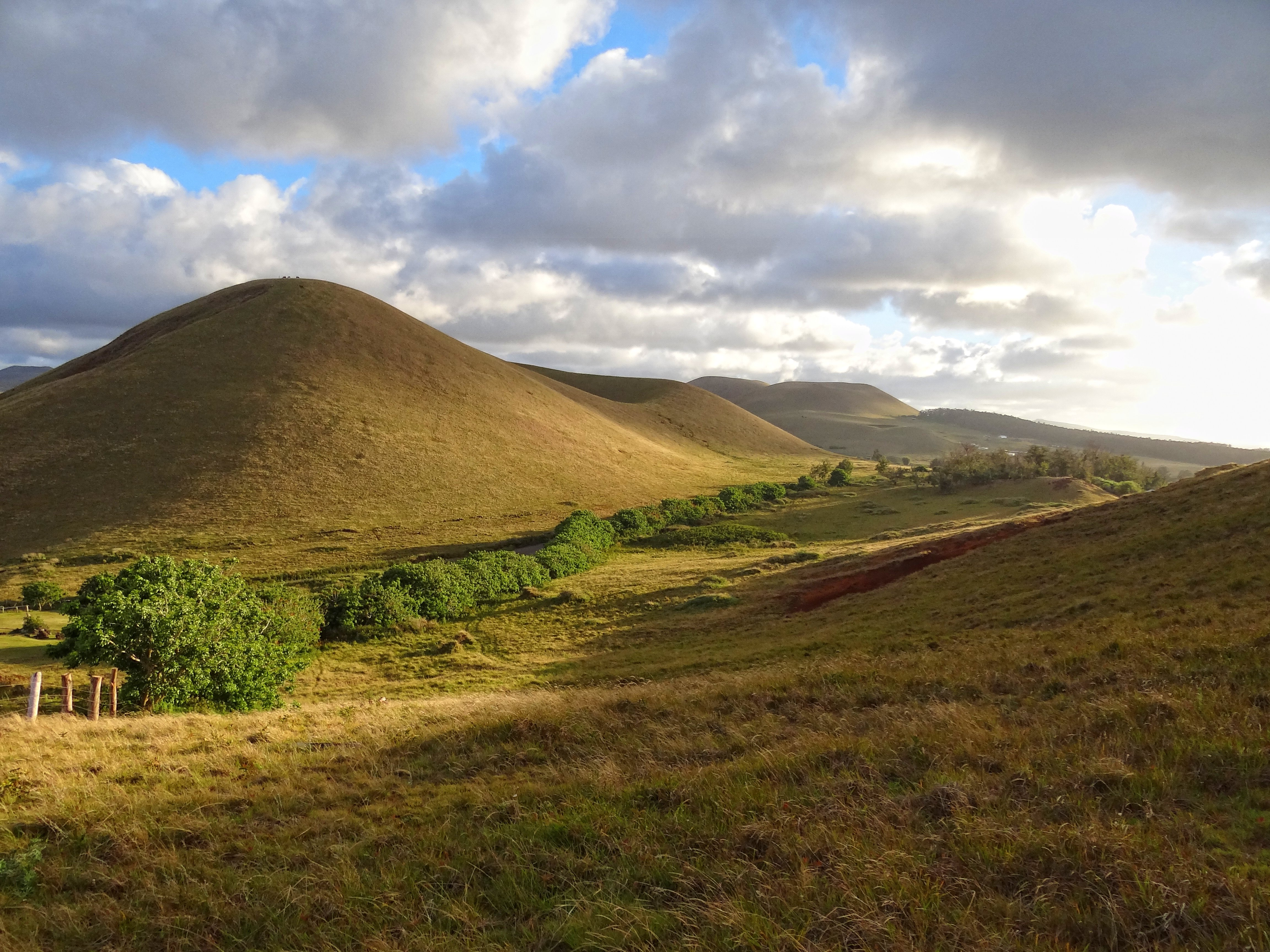 Typical landscape on Easter Island; rounded extinct volcanoes covered in vegetation. This is the view from Puna Pau, the quarry for the "hats" of the Moai stone statues on the island.